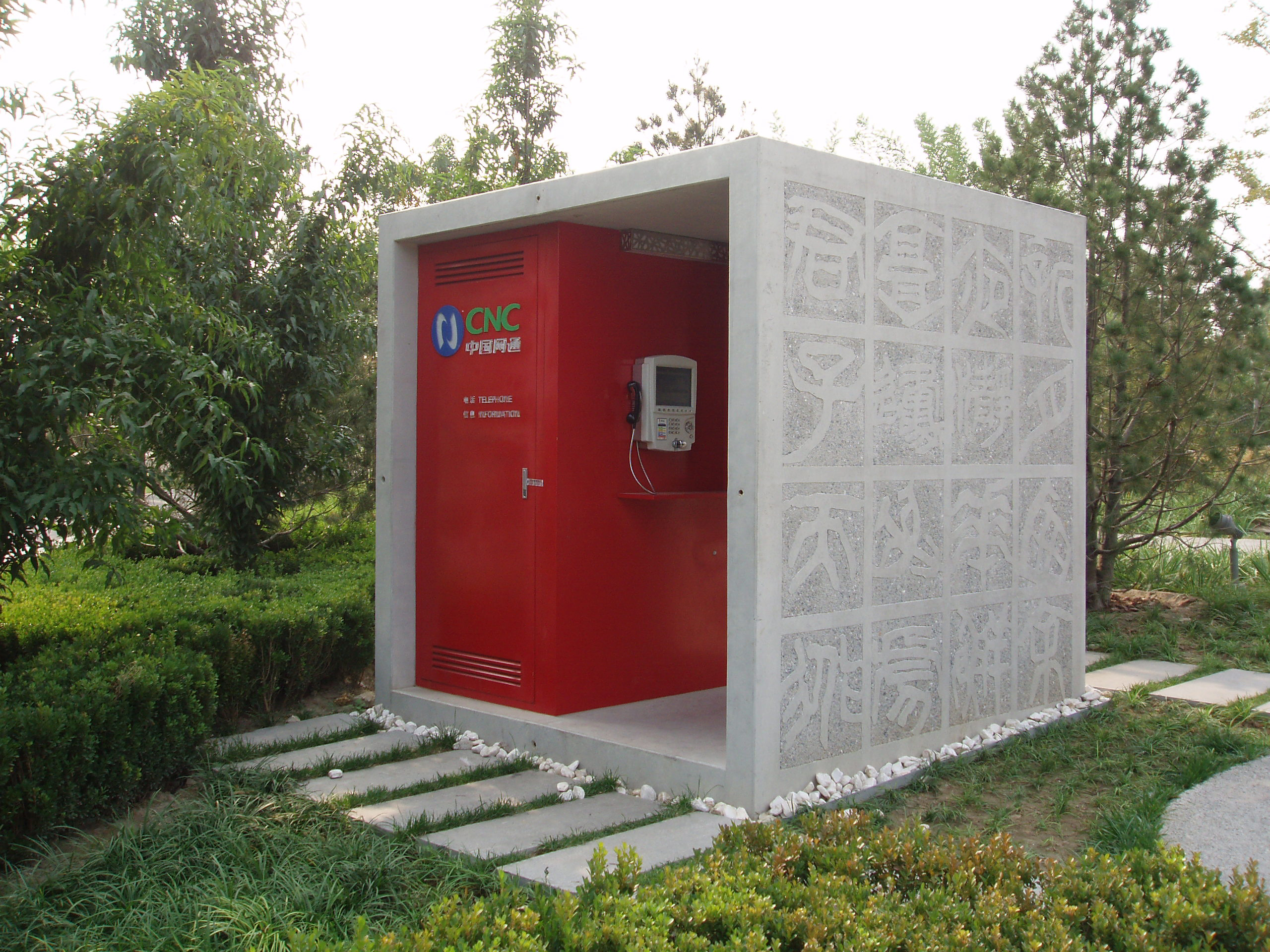 A telephone booth in Beijing.